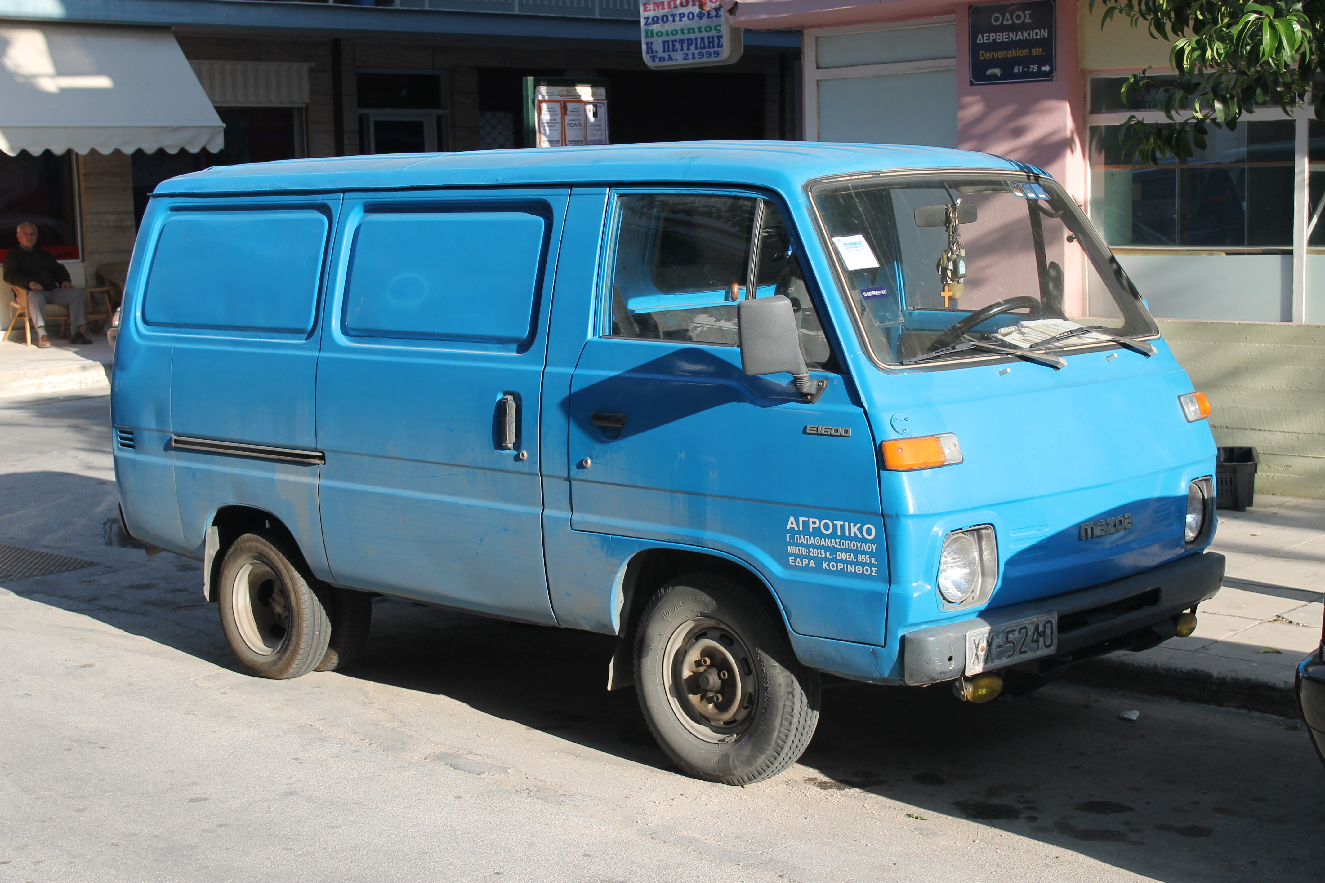 This one must be old. Imagine seeing this in the UK! I'm amazed how well old commercial vehicles have survived over in Greece. Such a round shape!